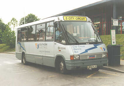 An Optare MetroRider electric midibus outside Oxford railway station on the "City Circuit" service